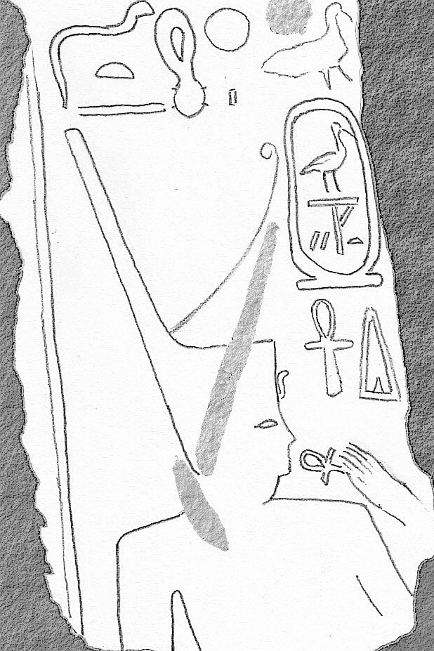 Drawing of a stone block depicting the ancient Egyptian pharaoh Djehuti wearing the red crown of Lower Egypt and receiving life (an ankh) from a deity. Found at Edfu, reign of Djehuti (dynasty disputed, late 13th to early 16th or 17th), Second Intermediate Period. [Based on the original photo at: M. von Falck, S. Klie, A. Schulz, "Neufunde ergänzen Königsnamen eines Herrschers der 2. Zwischenzeit". Göttinger Miszellen 87, 1985, p. 18]